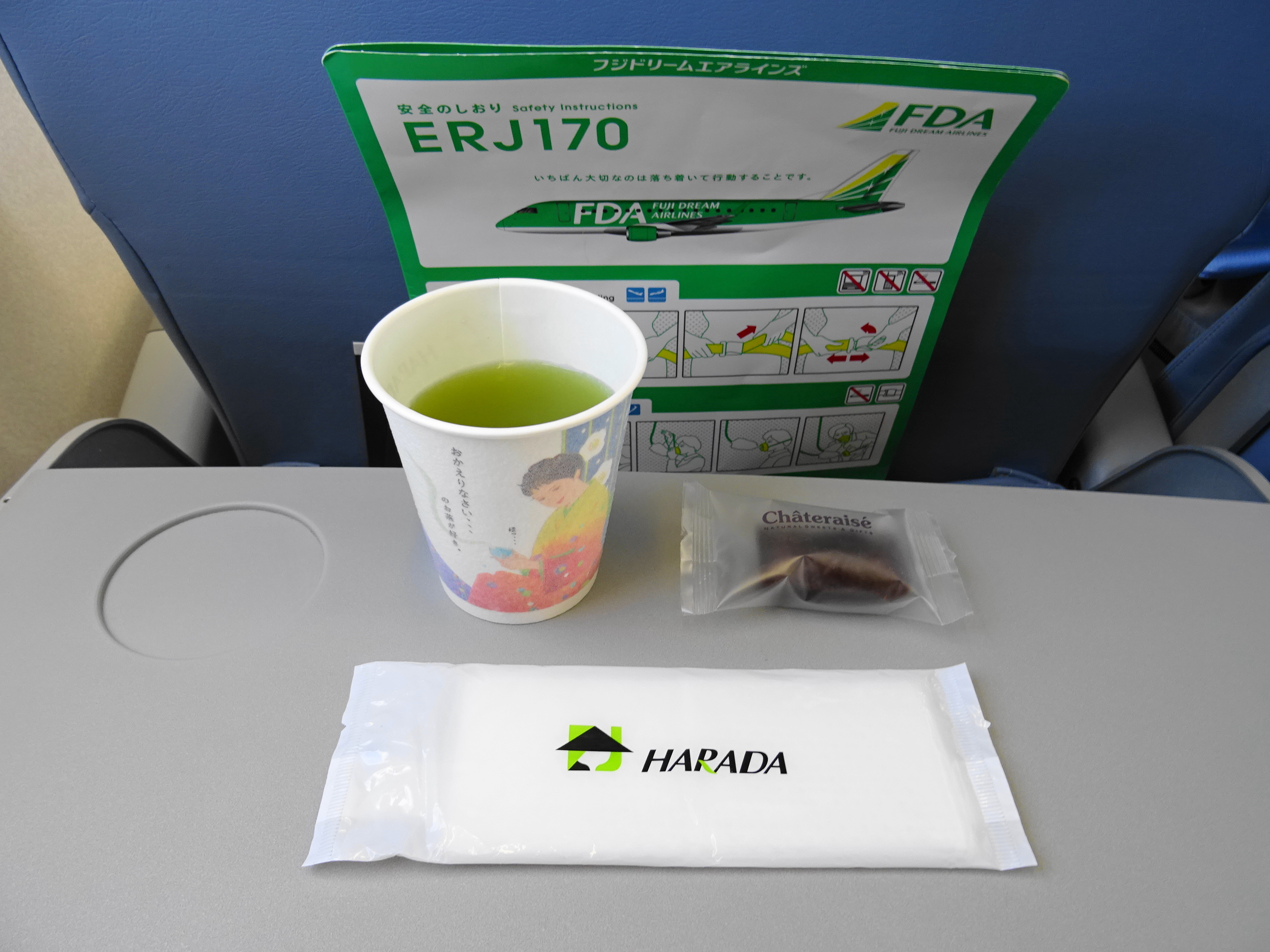 Fuji Dream Airlines